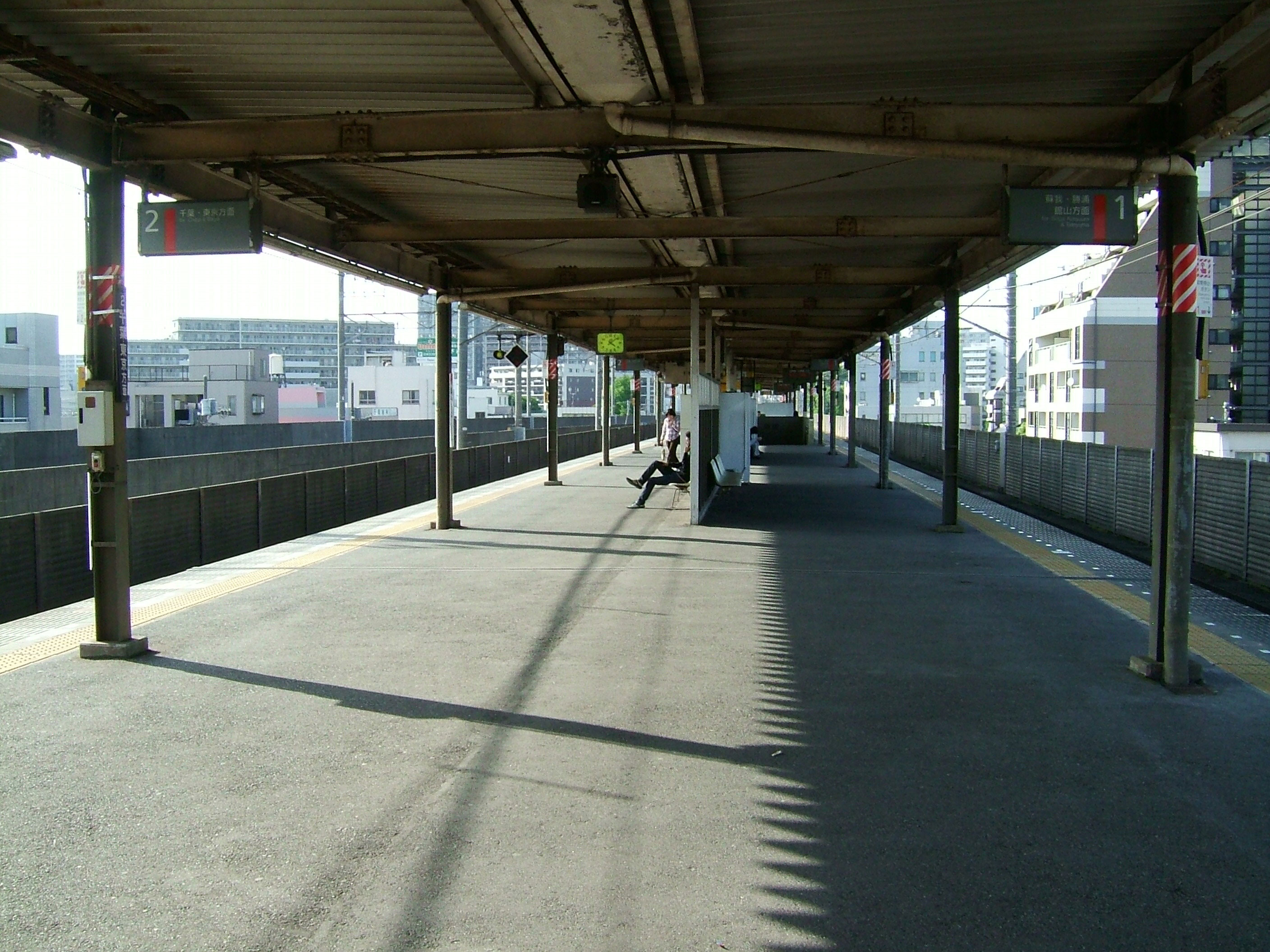 Hon-Chiba Station platform (East Japan Railway Sotobō Line)